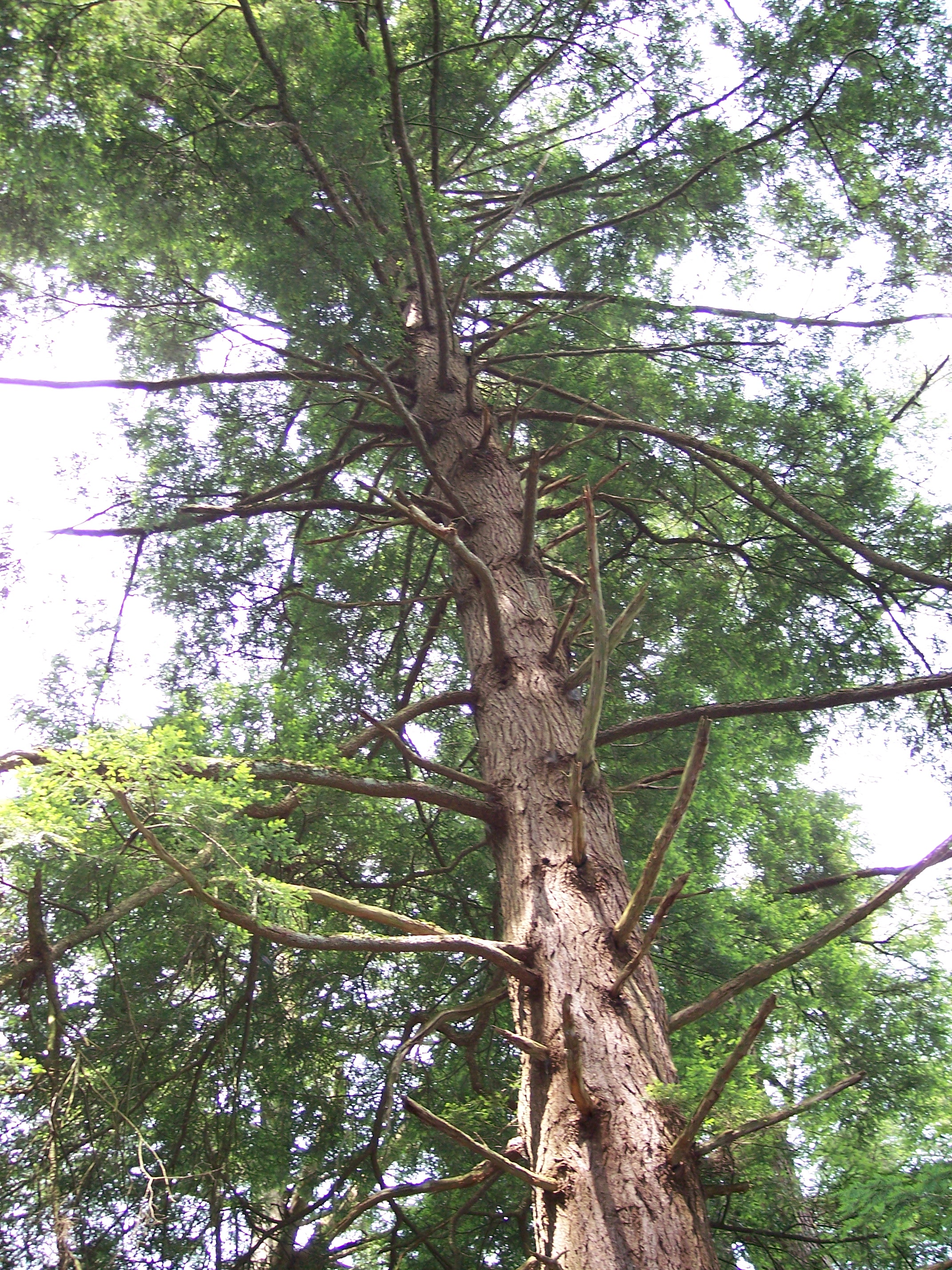 Tsuga canadensis Eastern Hemlock in Cathedral State Park in Aurora in Preston County, West Virginia